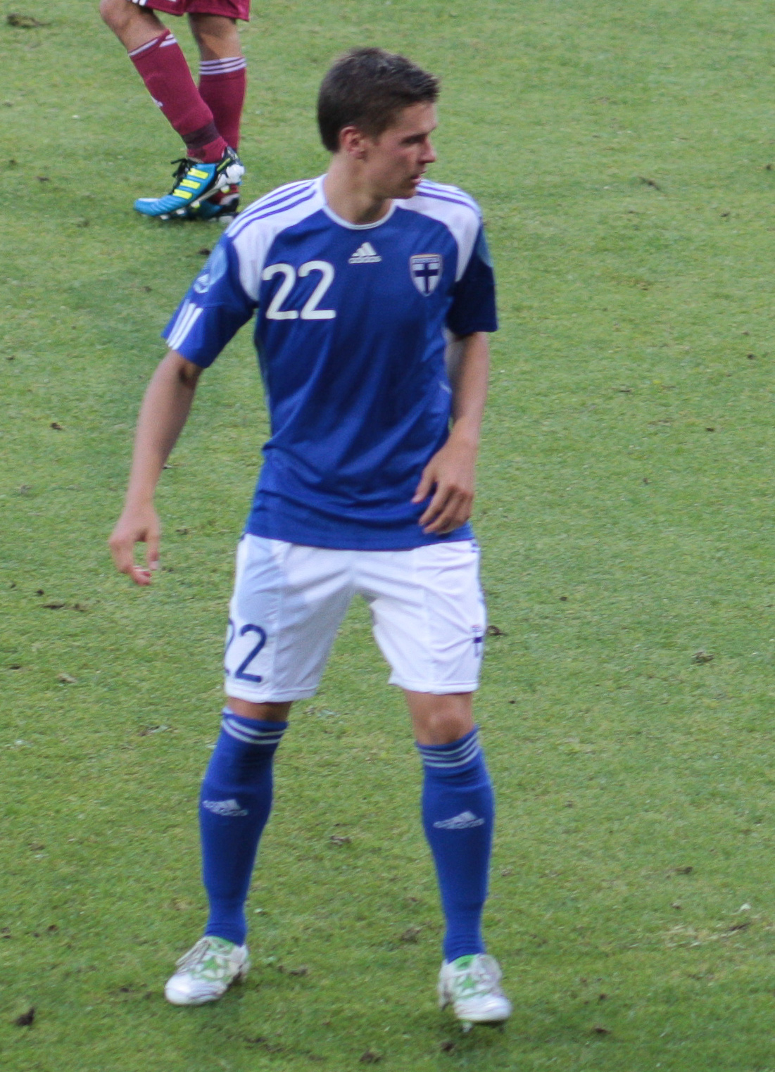 Jukka Raitala, Finnish football player